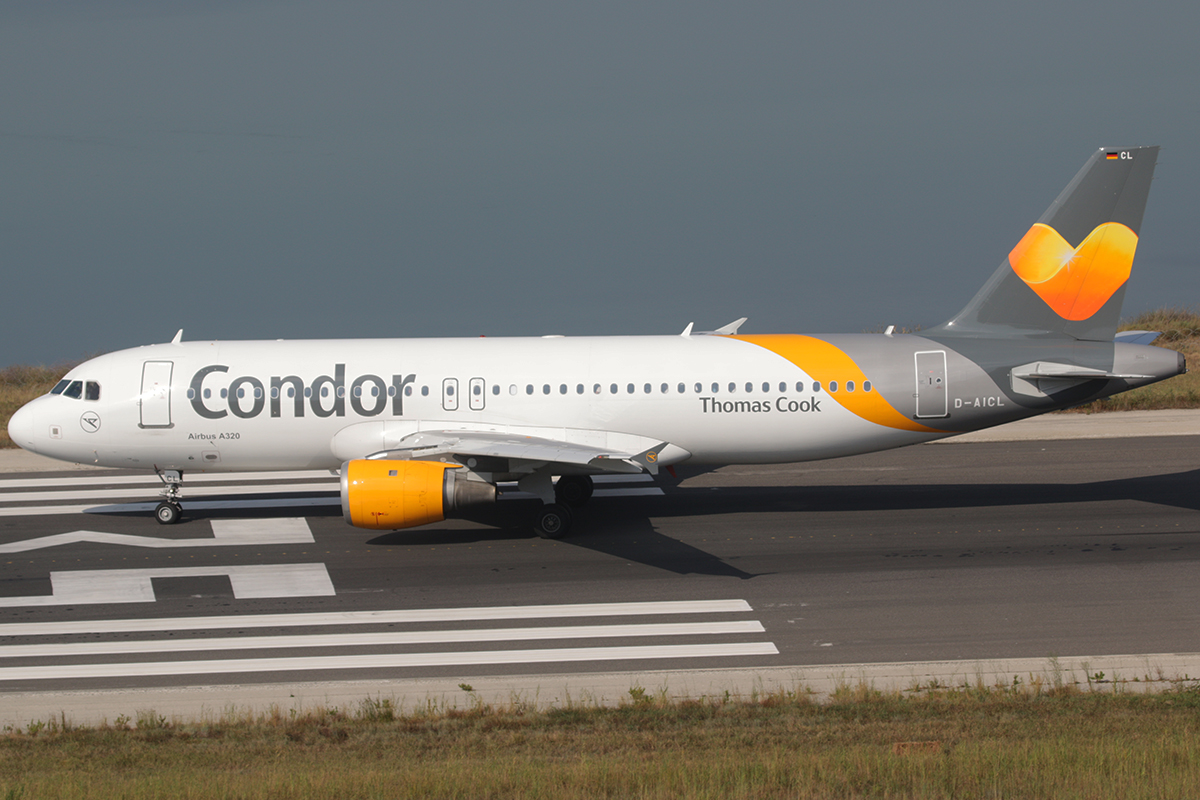 D-AICL Condor Airbus A320